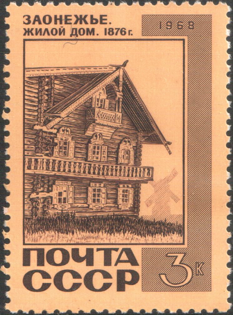 USSR stamp: House of Oshevnev (1876), Zaoneje, Kizhi Memorial Estate, Karelia. Series: Russian Architecture